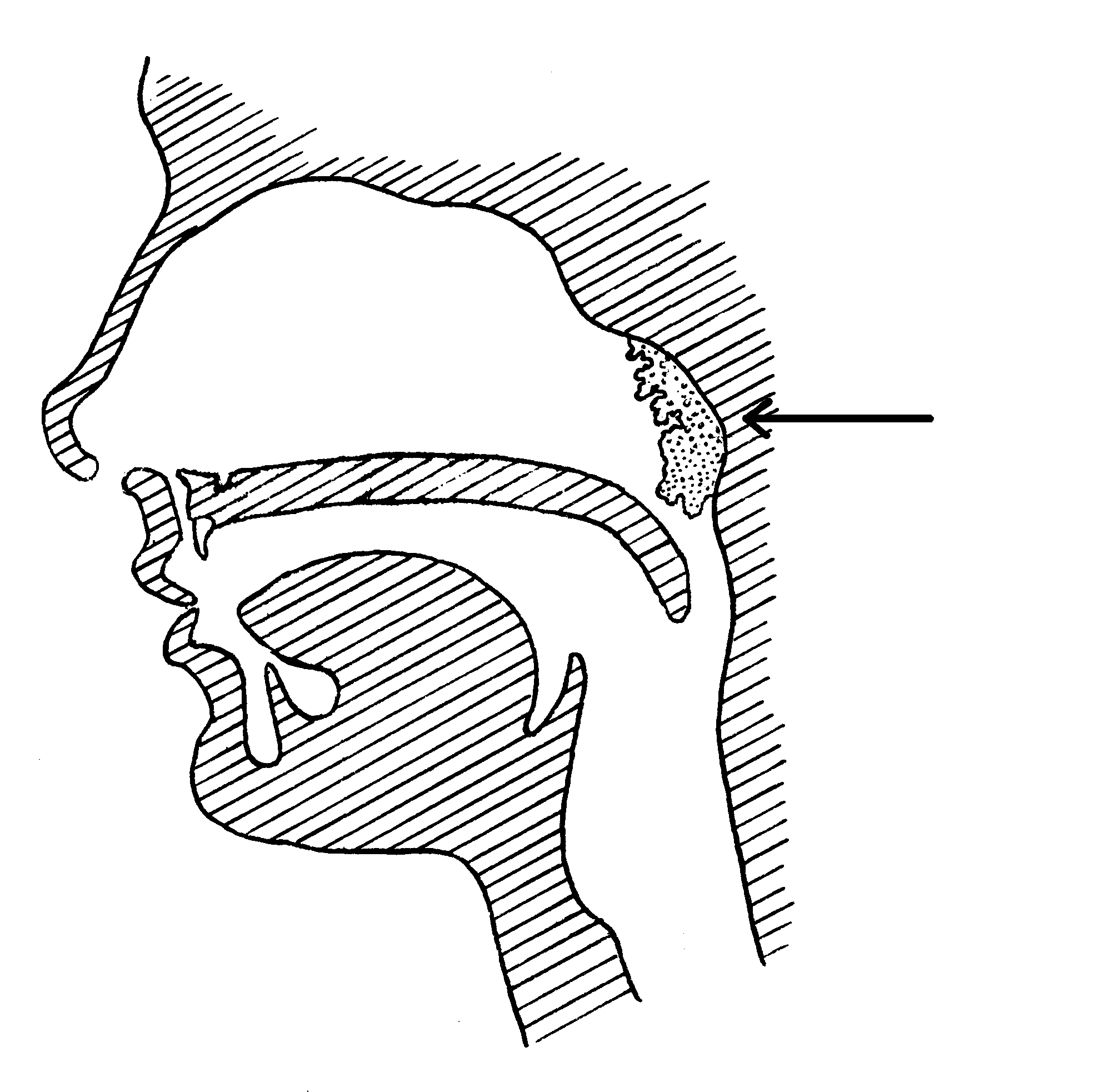 Line art drawing of the adenoids.